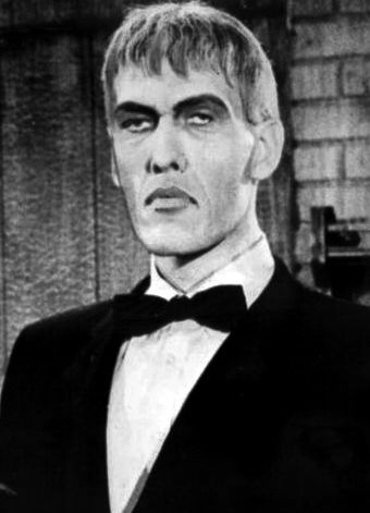 Publicity photo of Jackie Coogan (Uncle Fester) and Ted Cassidy (Lurch) from a personal appearance booking at Pleasure Island (Massachusetts amusement park, Wakefield Massachusetts).